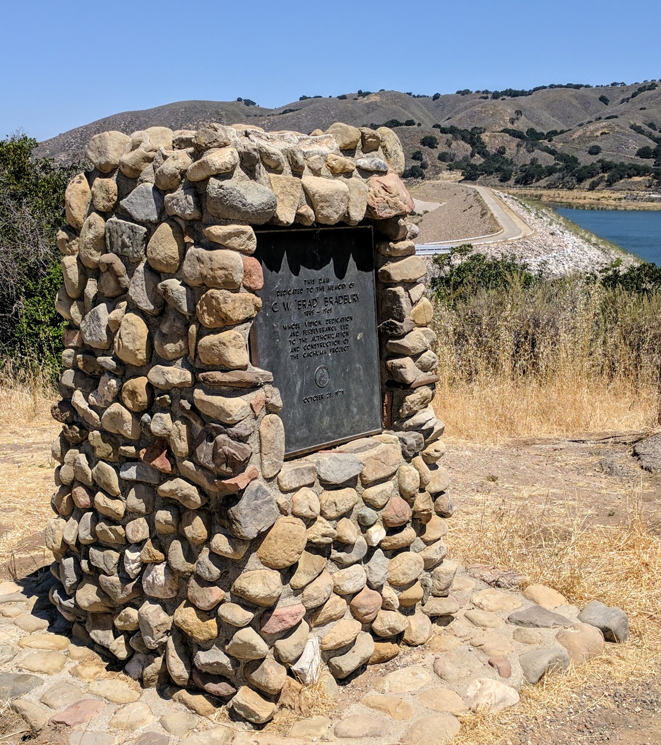 The dedication plaque for Bradbury Dam, to C. W. "Brad" Bradbury, at the vista point off California highway 154